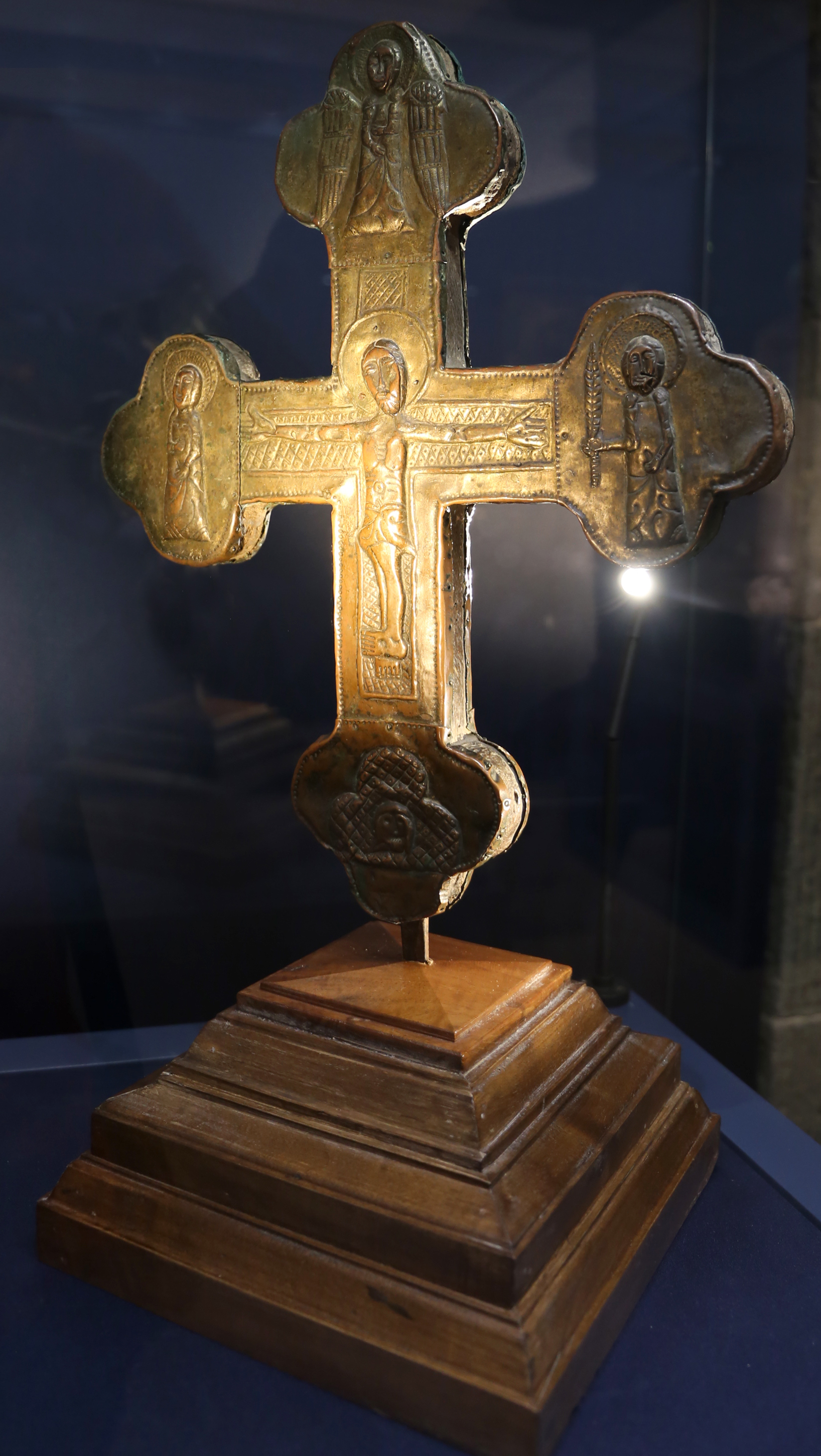 Facciamo presto! (2016-2017 exhibition)